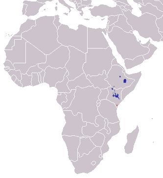 Grevy's Zebra (Equus grevyi). Range (blue — native, red — introduced)